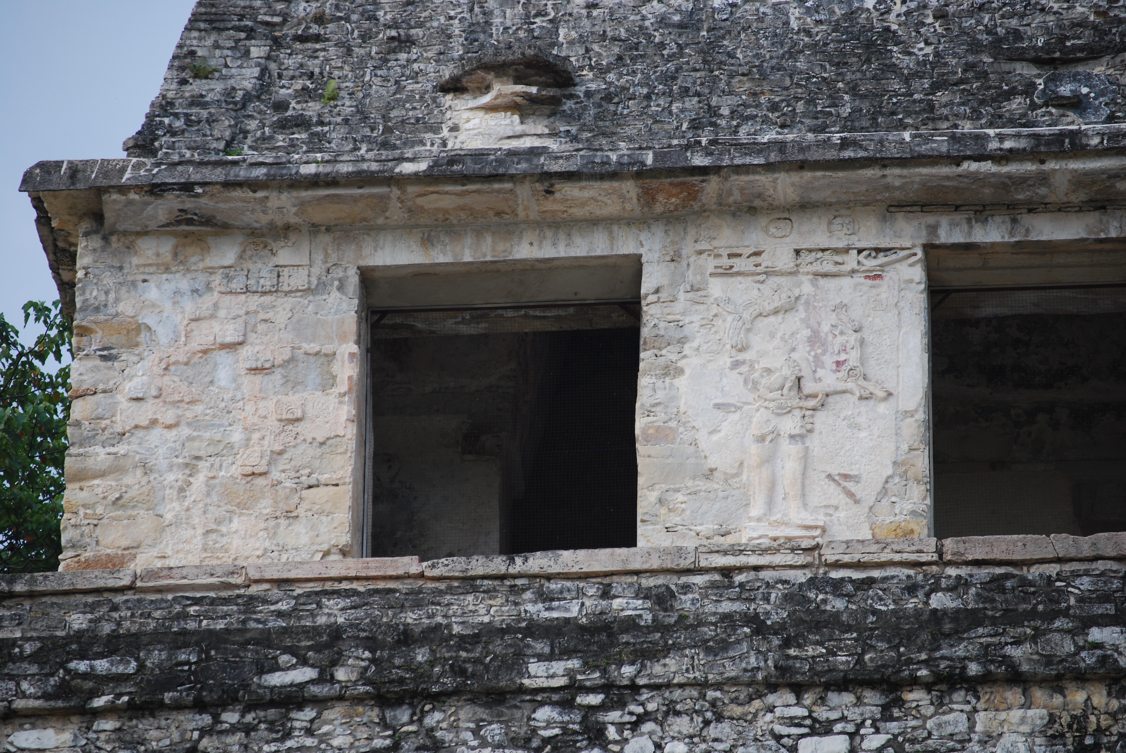 Upper left corner of the Temple of Inscriptions at Palenque, Chiapas, Mexico